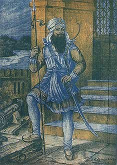 Sardar Jodh Singh Ramgarhia